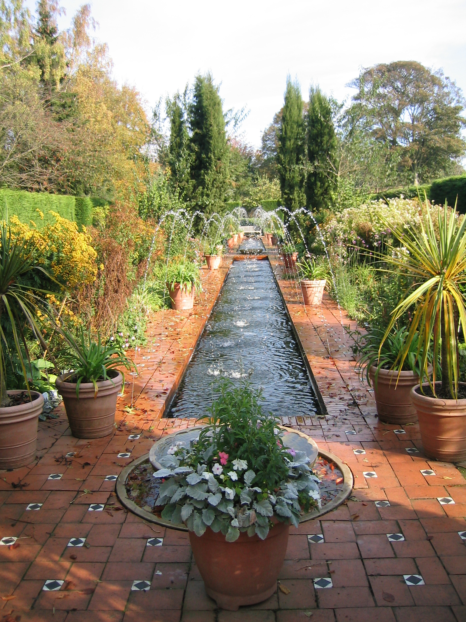 Alhambra Garden, Roundhay Park, Leeds, UK